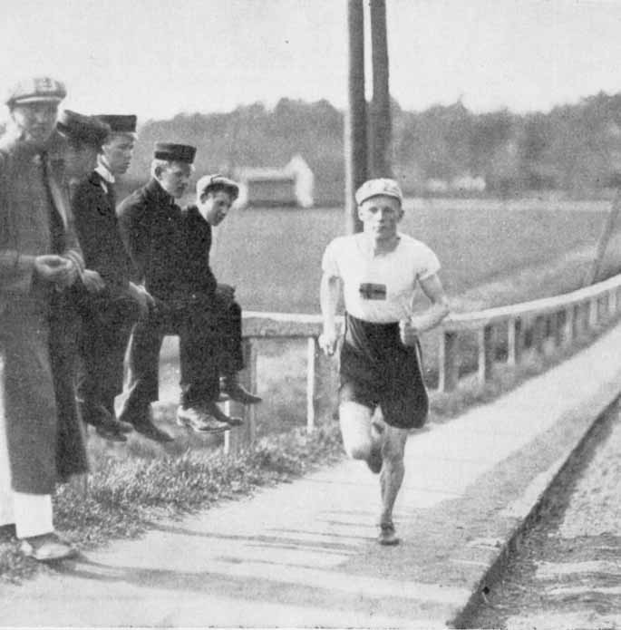 Gustaf Törnros running marathon at the London Olympics